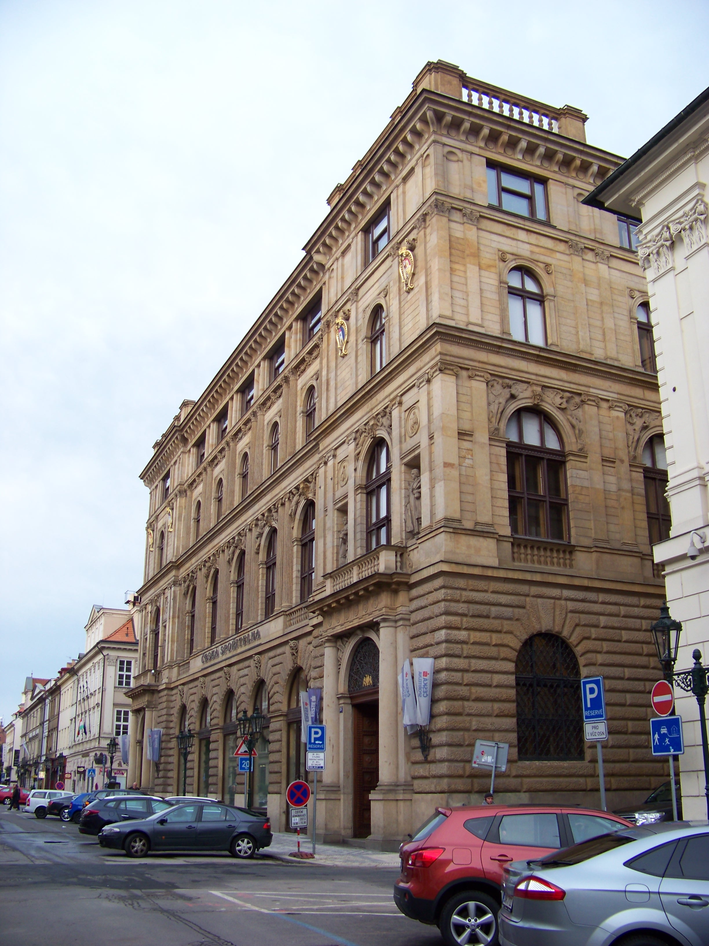 Prague-Old Town. Rytířská 536/29. - OpenStreetMap (Info)